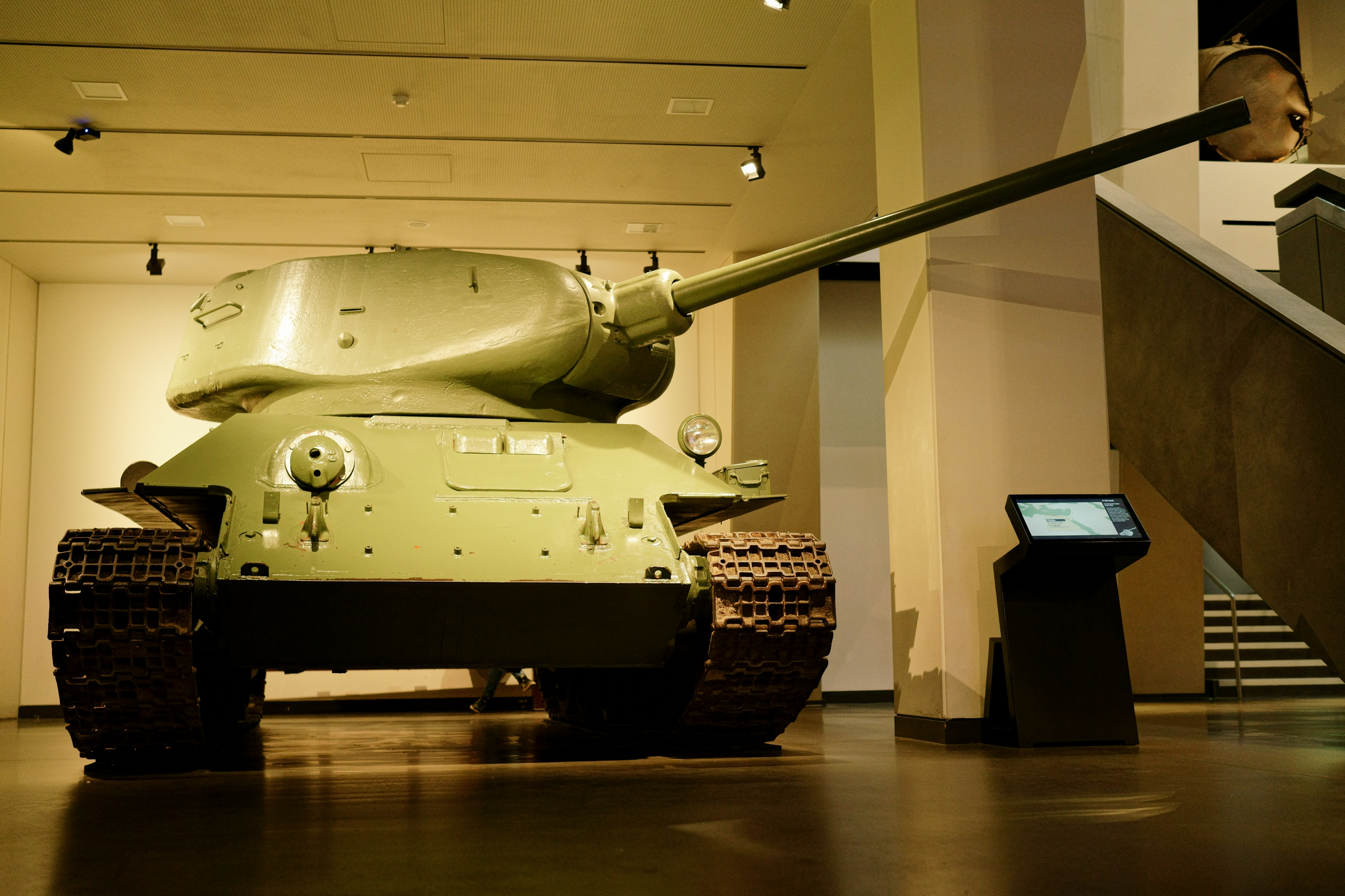 Imperial War Museum